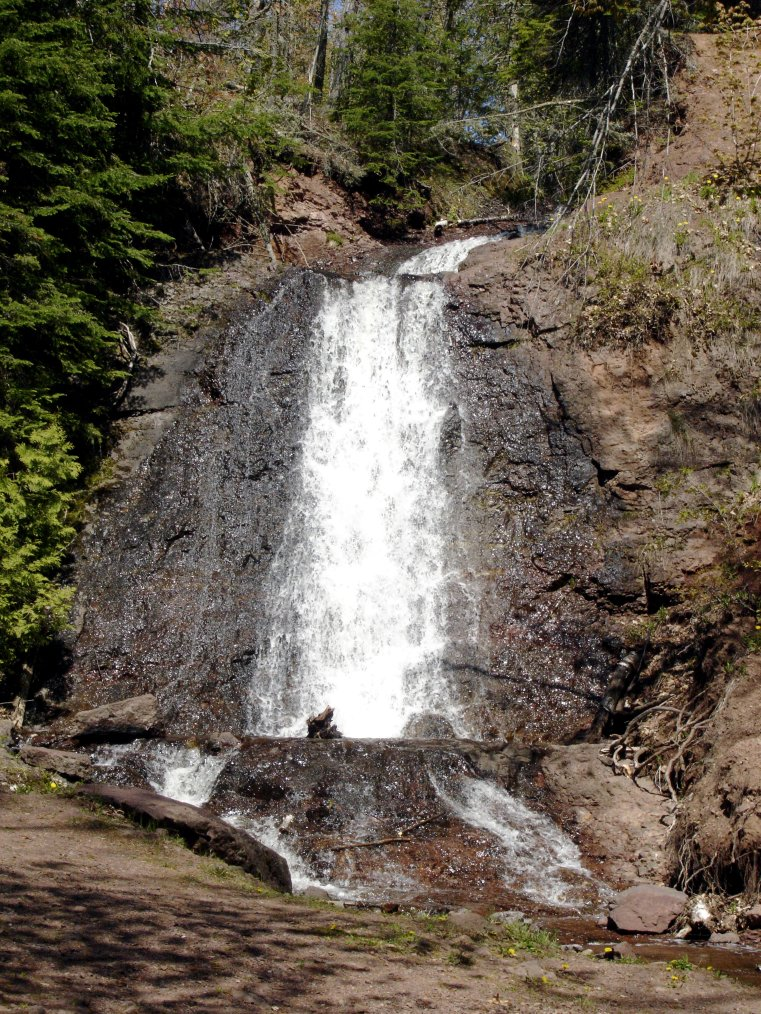 Haven Falls, on Haven Creek in the Keweenaw Peninsula of Michigan, near Lac La Belle. I took this photo myself on May 22, 2006.